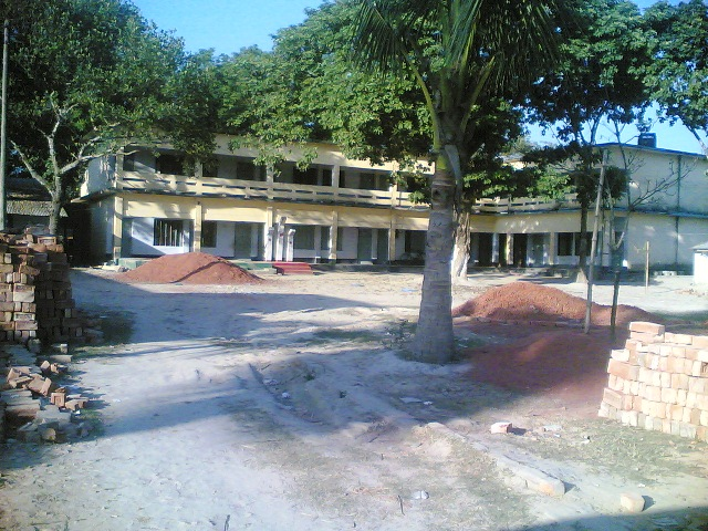 একটি ঐতিহ্যবাহী শিক্ষা প্রতিষ্ঠান